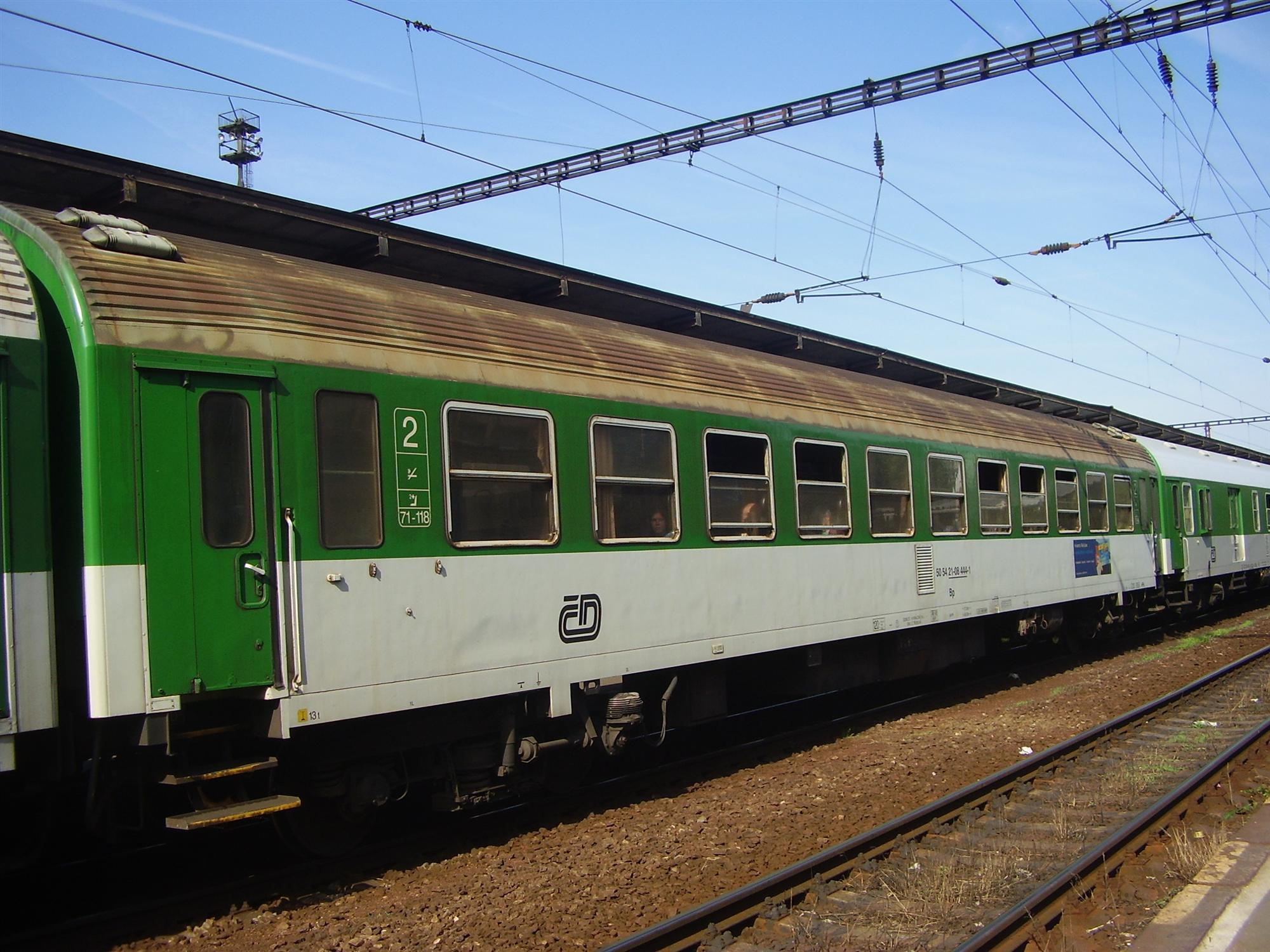 Rail car Bp ČD in train station Praha-Vršovice